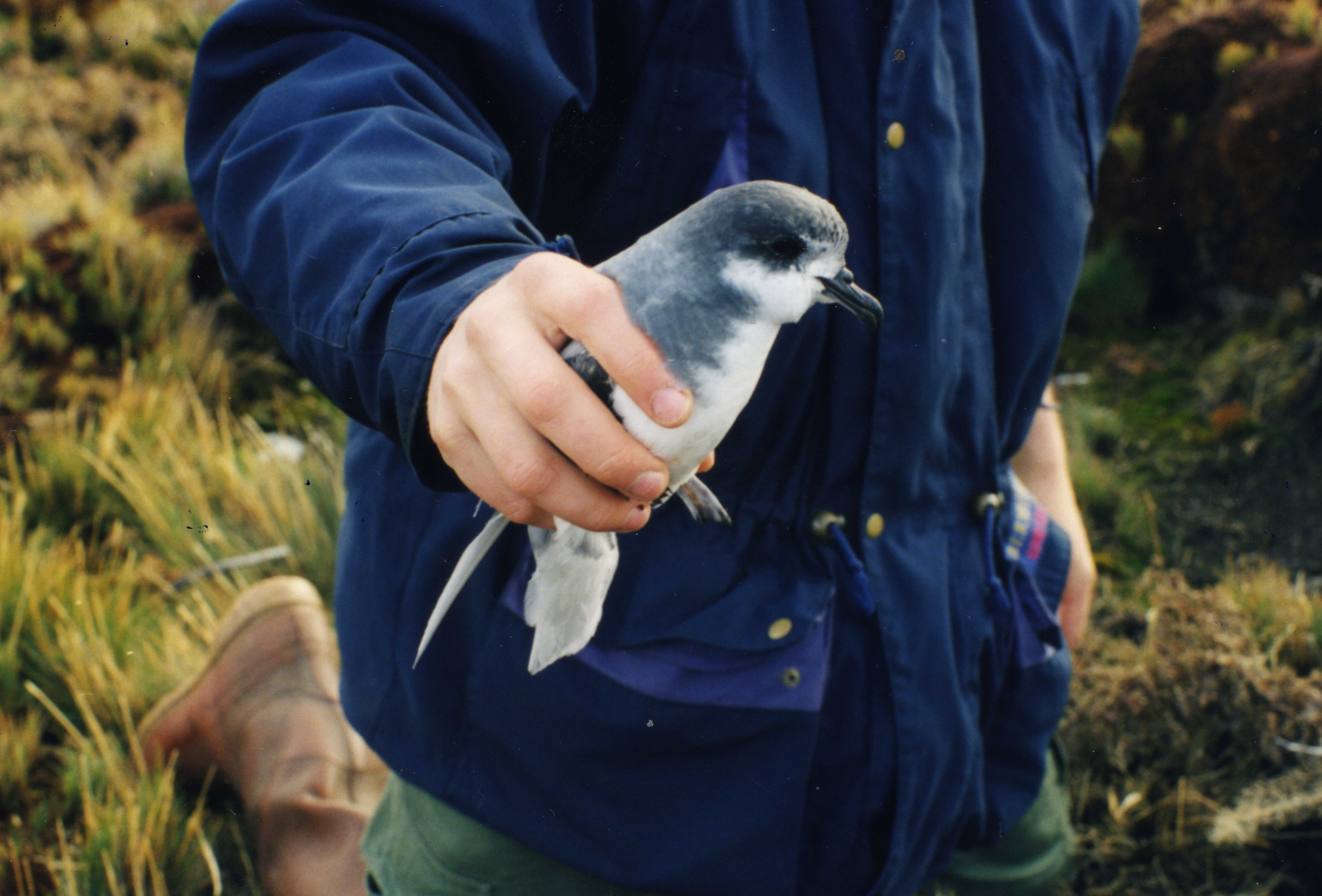 Blue Petrel (Halobaena caerulea) - ornithological survey and ringing campaign on Mayes island - 1999 (Kerguelen Islands)